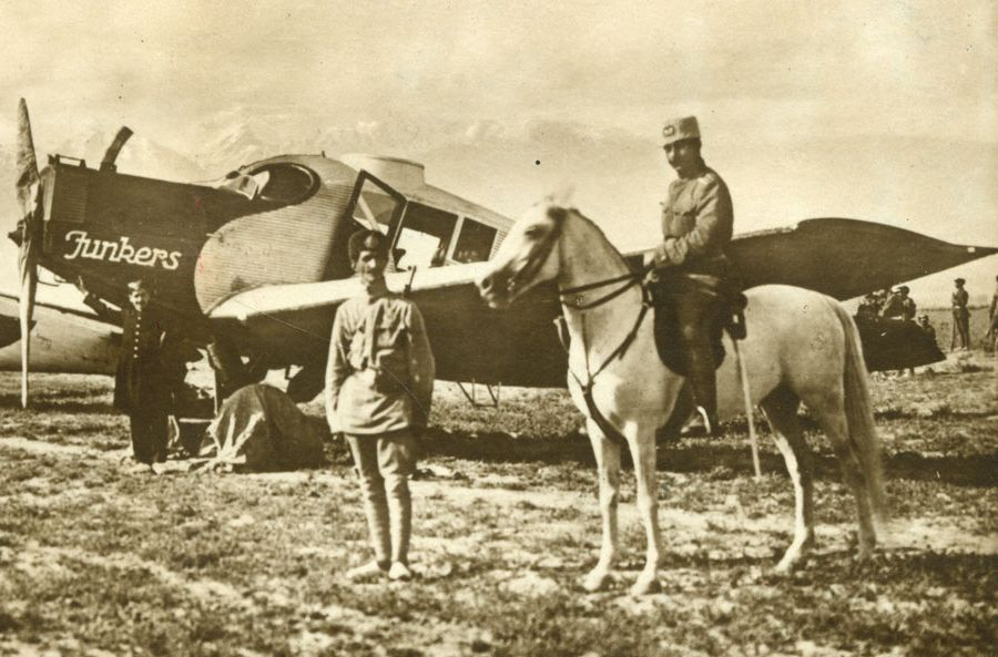 the Exhibition of 2 F13 sent to Tehran(Ghale Morghi Air Field), Iran. these Junkers bought at 1921 from Germany. standing man was Colonel Ahmad Khan Nakhjavan (Breguet -19).